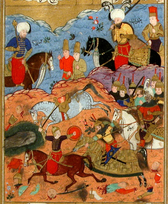 Osman Paşa and Âsafi against Aras Khan